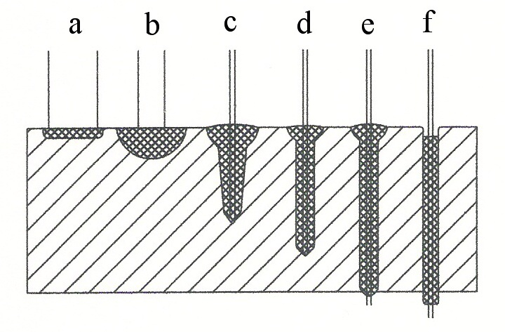 Various forms of melted zone depending on beam power and power density